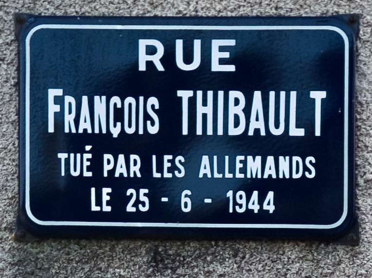 Rue François Thibault, Planchez, Département Nièvre, Bourgogne-Franche-Comté, France